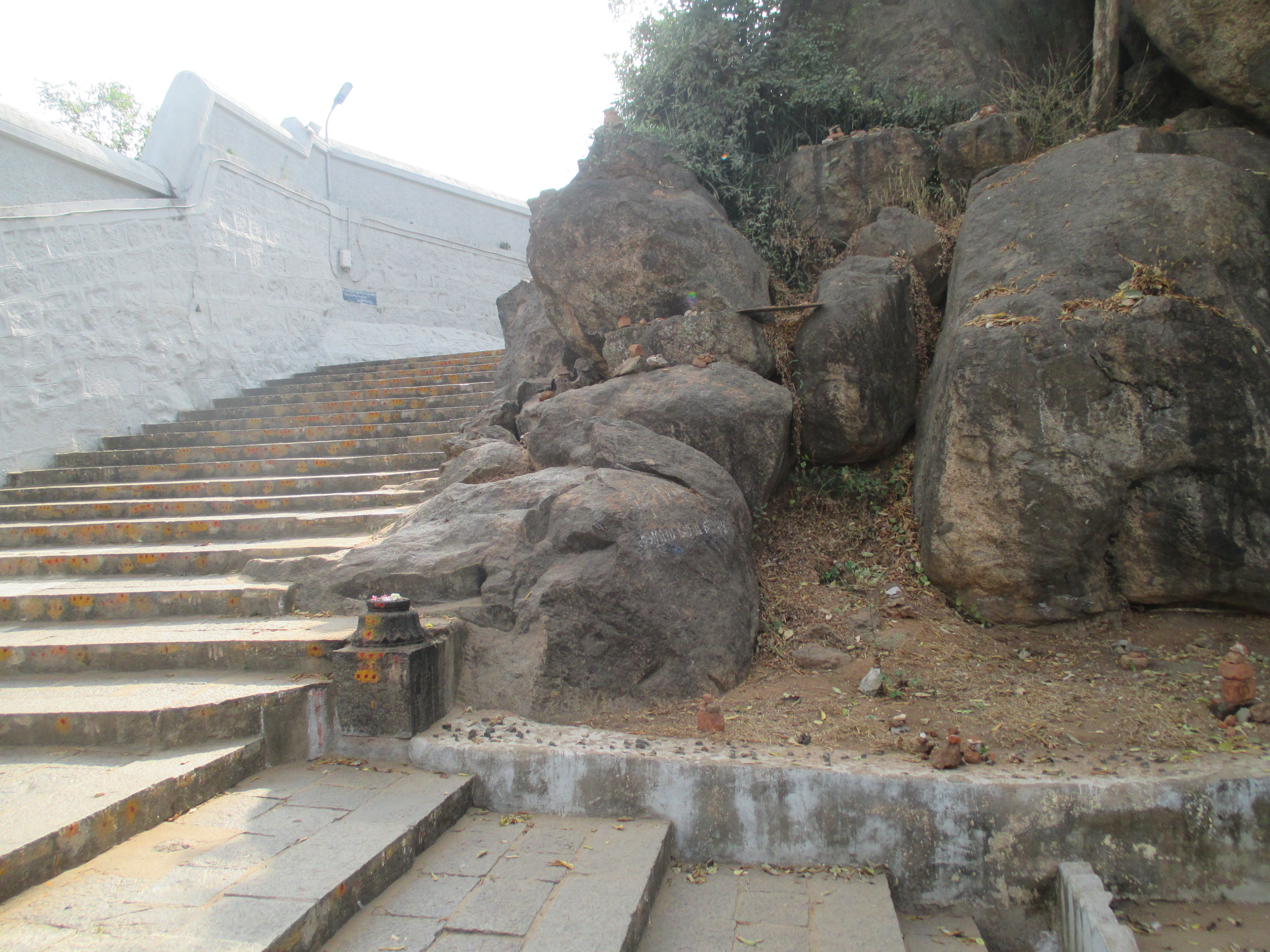 Singaperumalkovil